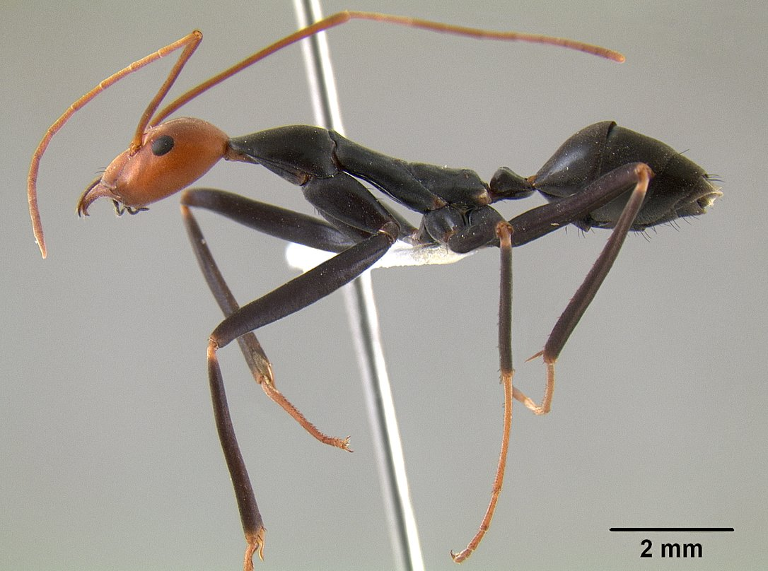 Profile view of ant Leptomyrmex erythrocephalus specimen casent0011746.